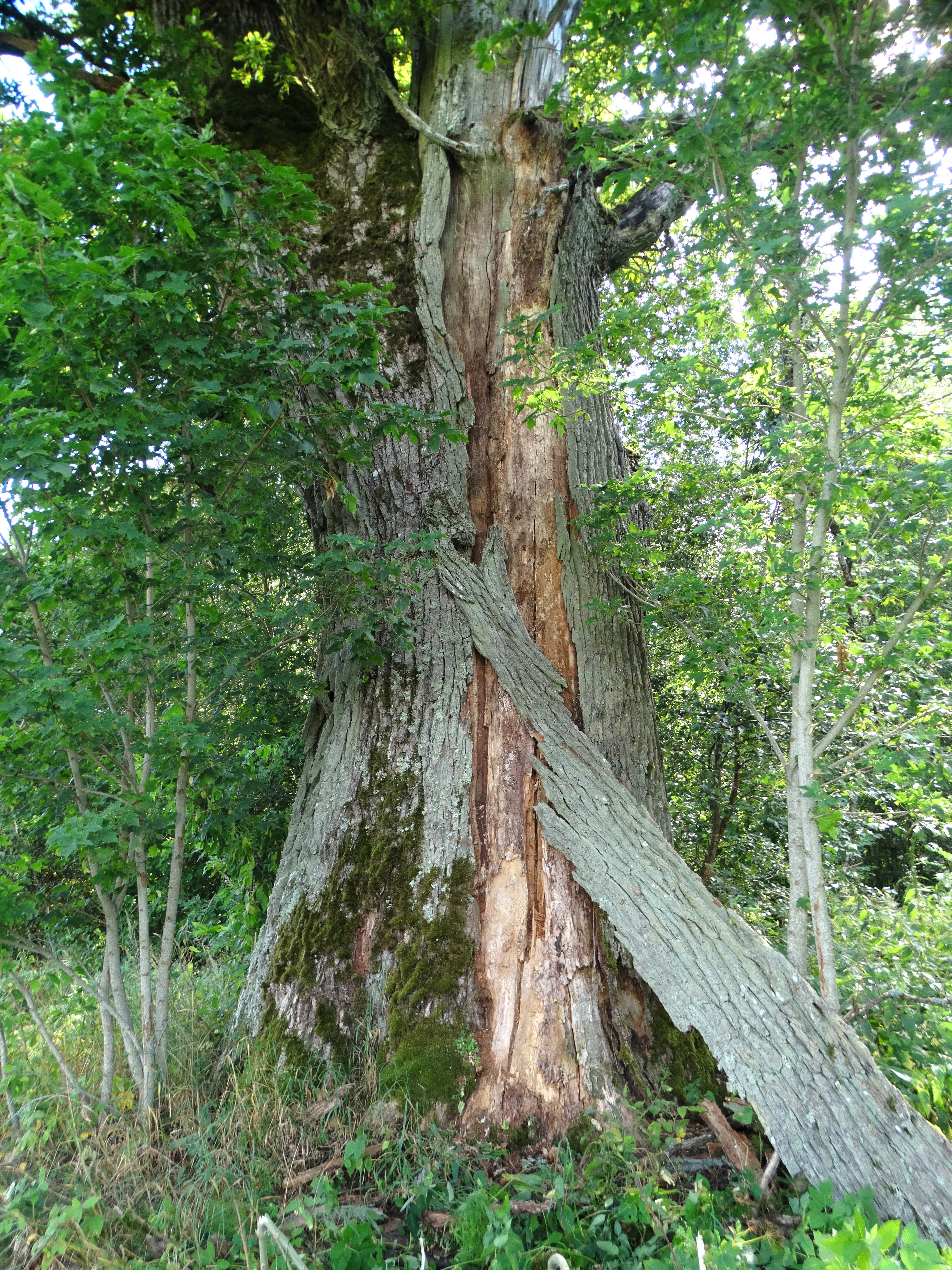 Antininkai Oak, Šilalė district, Lithuania